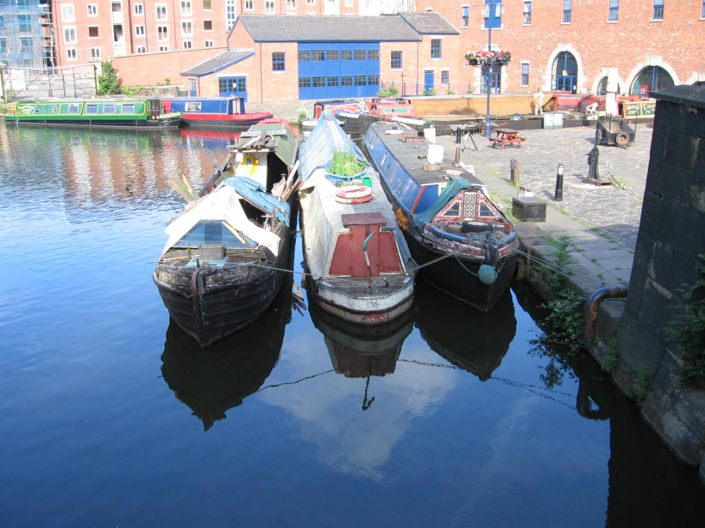 Wooden Canal Boats, Portland Basin, Ashton, Greater Manchester, England